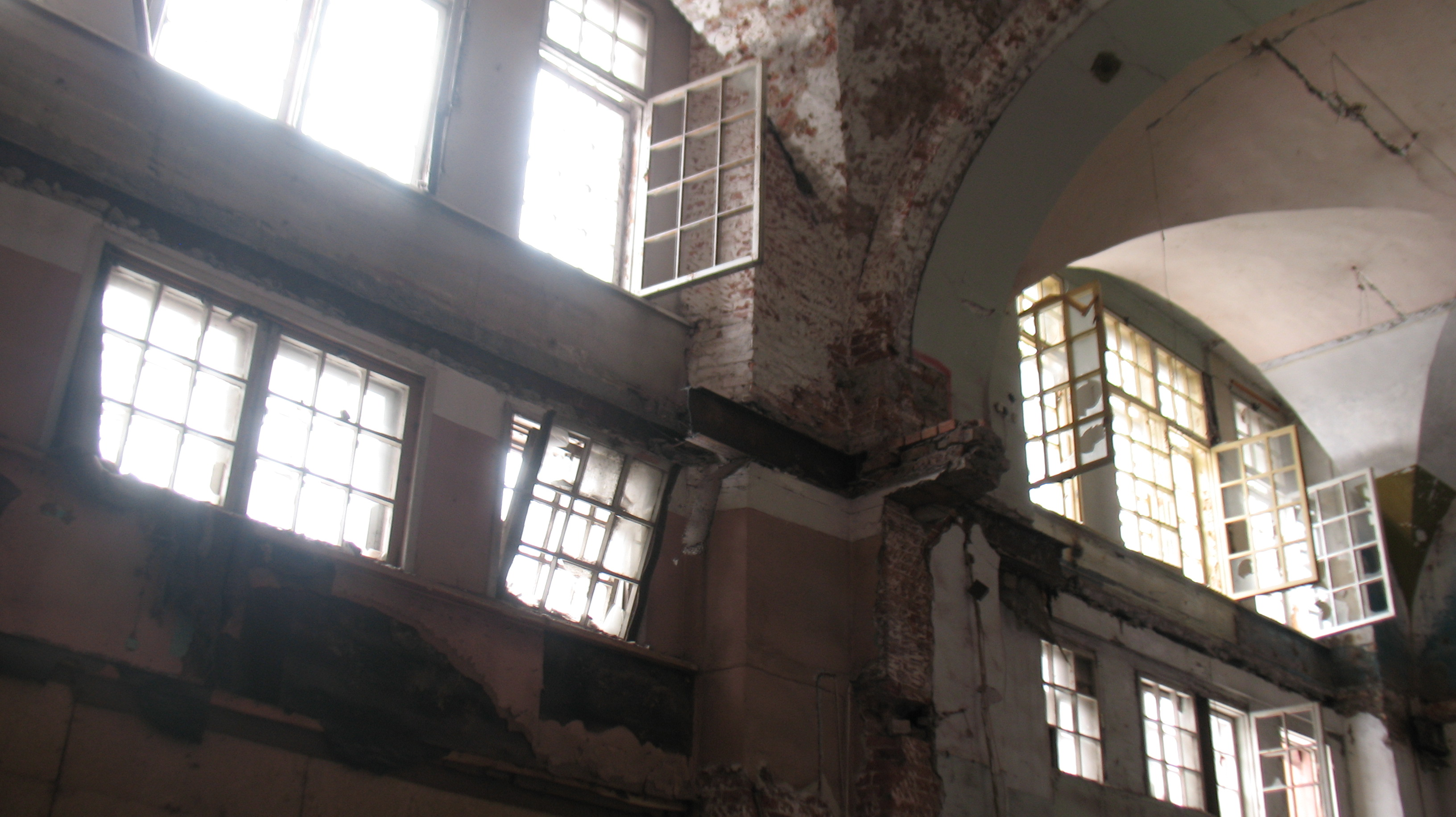 Windows of an abandoned building on New Holland island, Saint-Petersburg, Russia